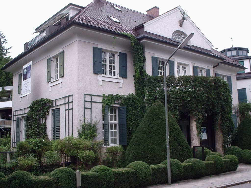 Listed building at Diefenbachstraße 2, Solln, Munich, Germany. Former pharmacy "Hubertusapotheke", built 1906-07 by Emanuel von Seidl.